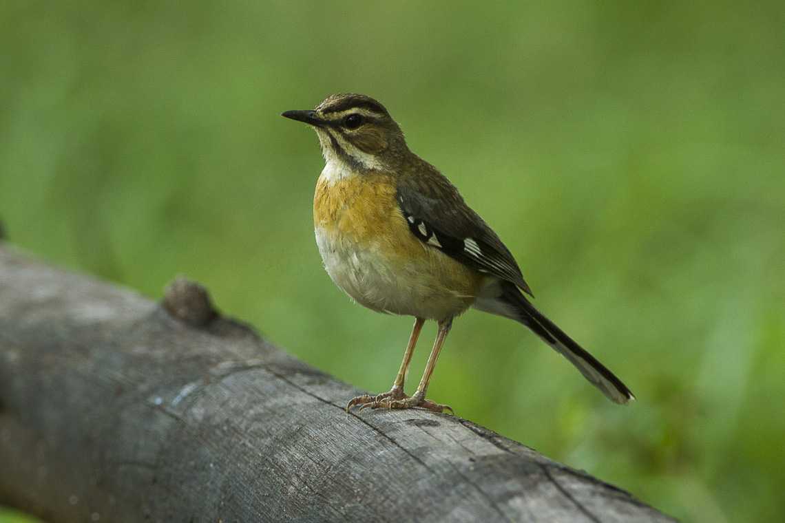 Bearded Scrub-Robin - Natal - South Africa_S4E8875